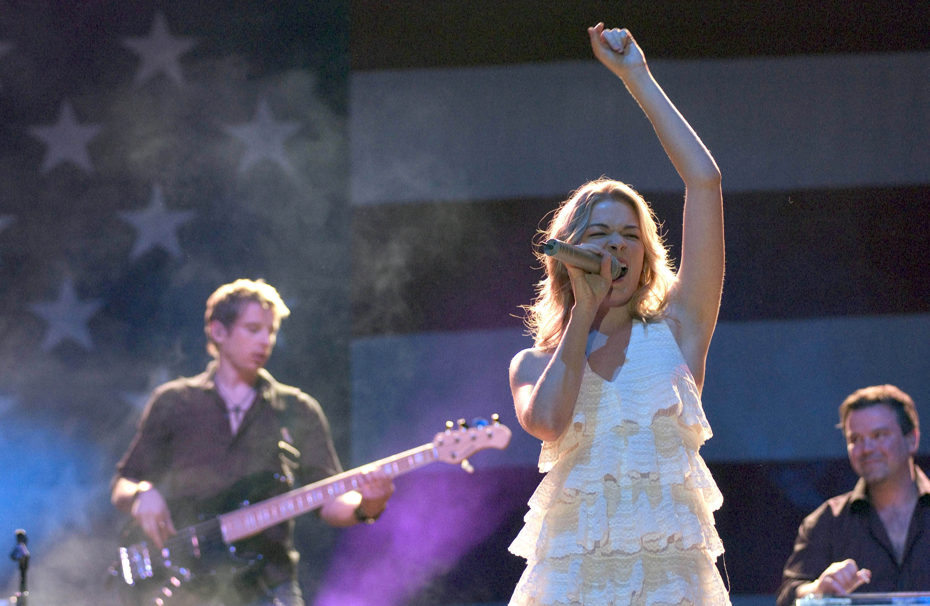 RAMSTEIN AIR BASE, Germany -- Country/pop singer LeAnn Rimes performs a free concert for Airmen here Sept. 23.